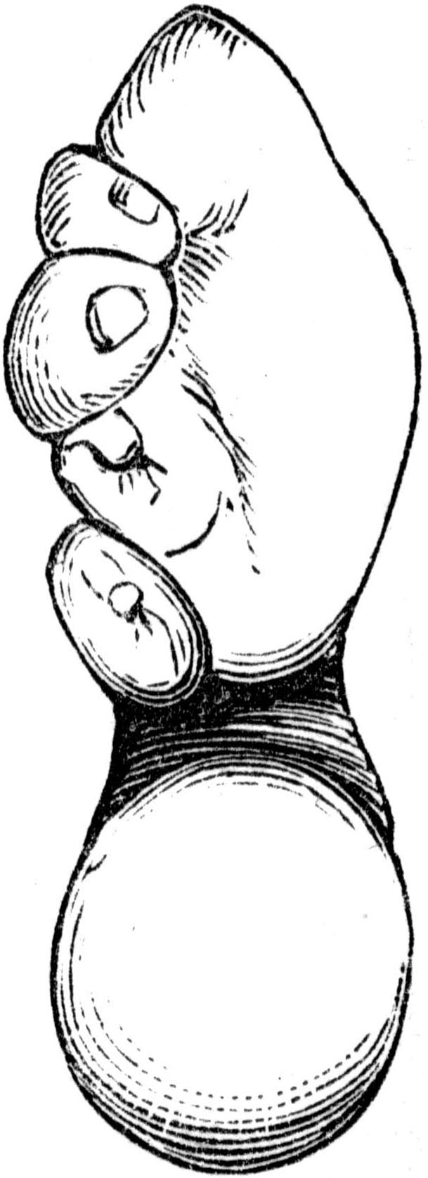 Fig. 16--Sole of Chinese Woman's Foot. (after) A photograph by Dr. R. A. Jamieson. Dr. Jamieson says, "The fashionable length for a Chinese lady's foot is between 3 1/2 and 4 inches, but comparatibely few parents succeed in arresting growth so completely.